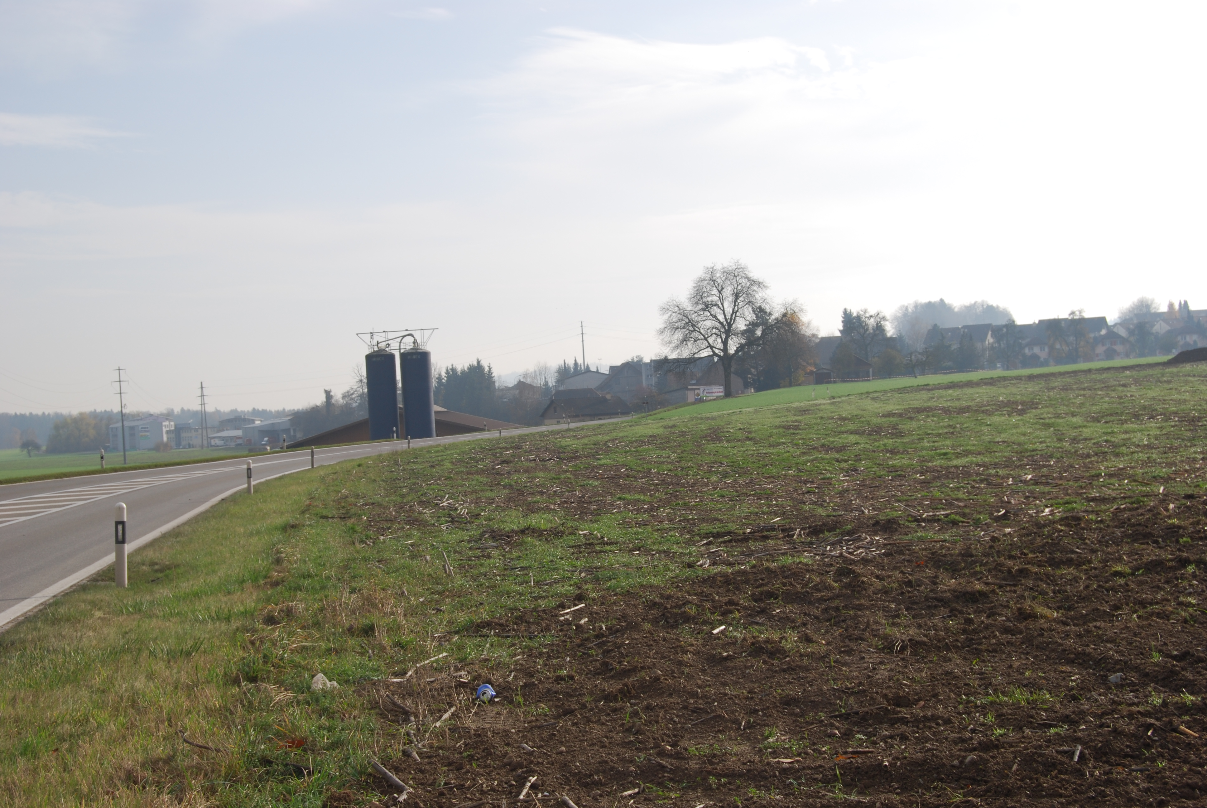 Nesselnbach, municipality of Niederwil, canton of Aargau, SwitzerlandEsperanto: Nesselnbach, komunumo Niederwil, Kantono Argovio, Svislando